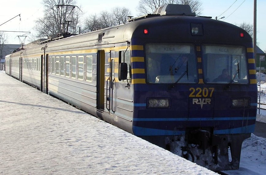 Electric Multiple Unit train in Tallinn Balti jaam railway station